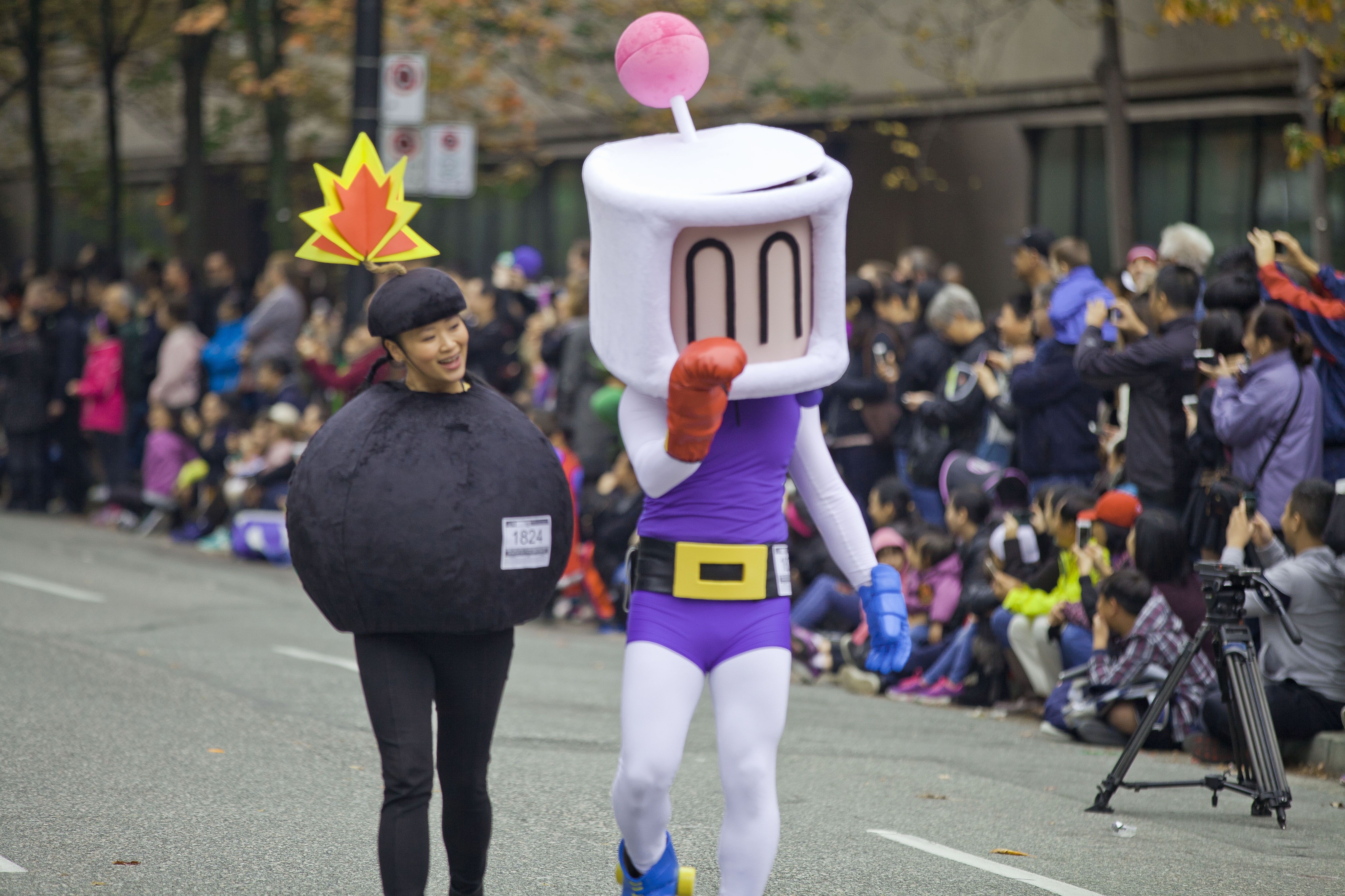 Halloween Parade Halloween